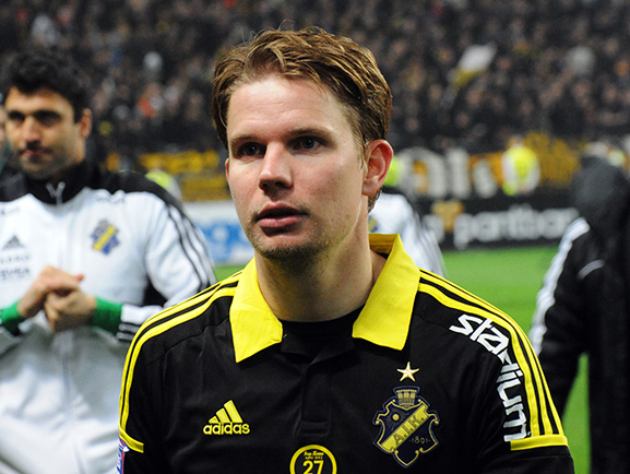 Johan Blomberg, AIK